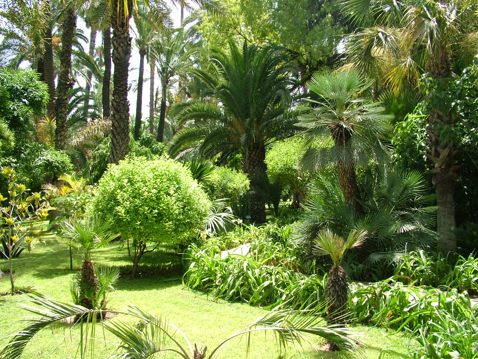 Majorelle Garden, Marrakech, Morocco